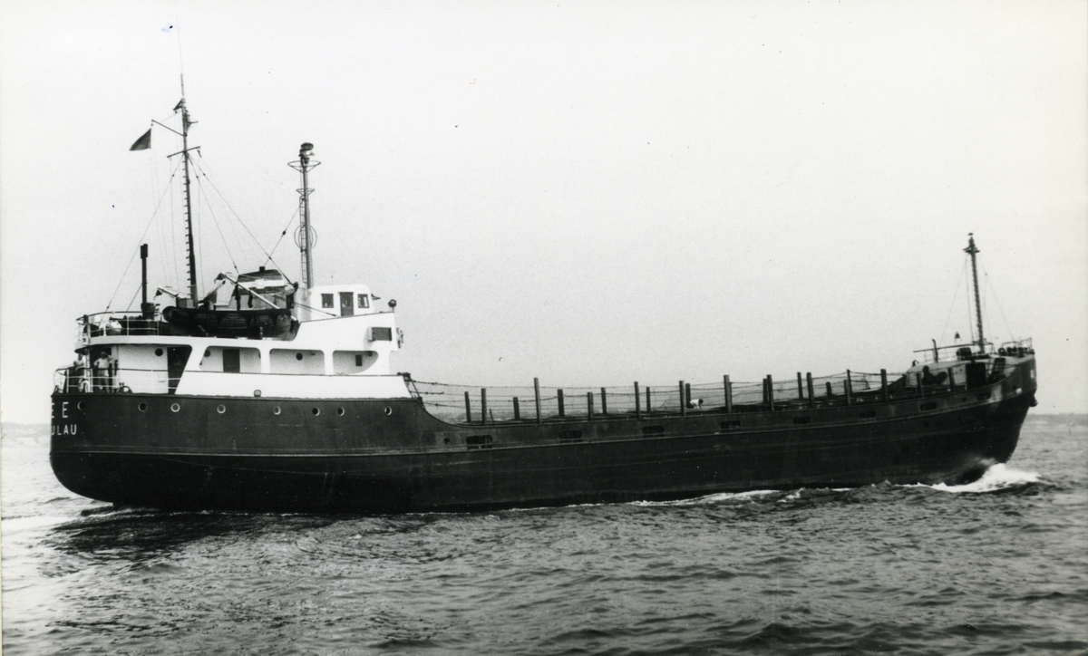 Coaster LEE (IMO 5205318) launched at Norderwerft Köser & Meyer, Hamburg, as tugboat in 04-1944, completed as general cargo ship HEILBRONN at shipyard Pohl & Jozwiak, Hamburg (Pohl & Jozwiak yard № 70, delivered: 07-1952) for Reederei Poljo (owned by Pohl & Jozwiak), later names: 1962 LEE, 1974 NIKOLIS, 1977 FOTINI S., broken up Piraeus 1980, photo taken in 1971 by Bernt Fogelberg, copyright owned by Sjöhistoriska museet.